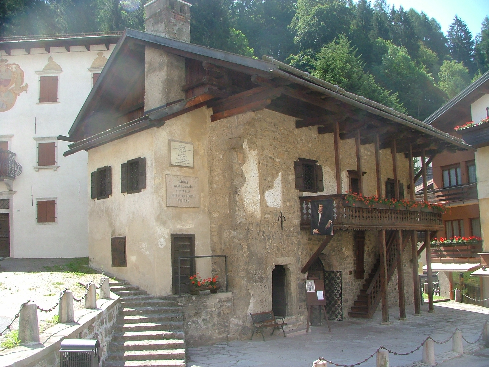 Titian native house in Pieve di Cadore, Province of Belluno, Veneto, Italy